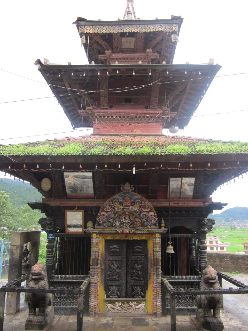 swet bhairav shree khandpur